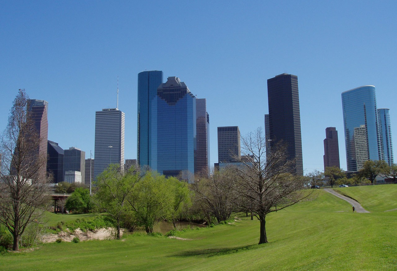 Downtown Houston from Eleanor Tinsley Park